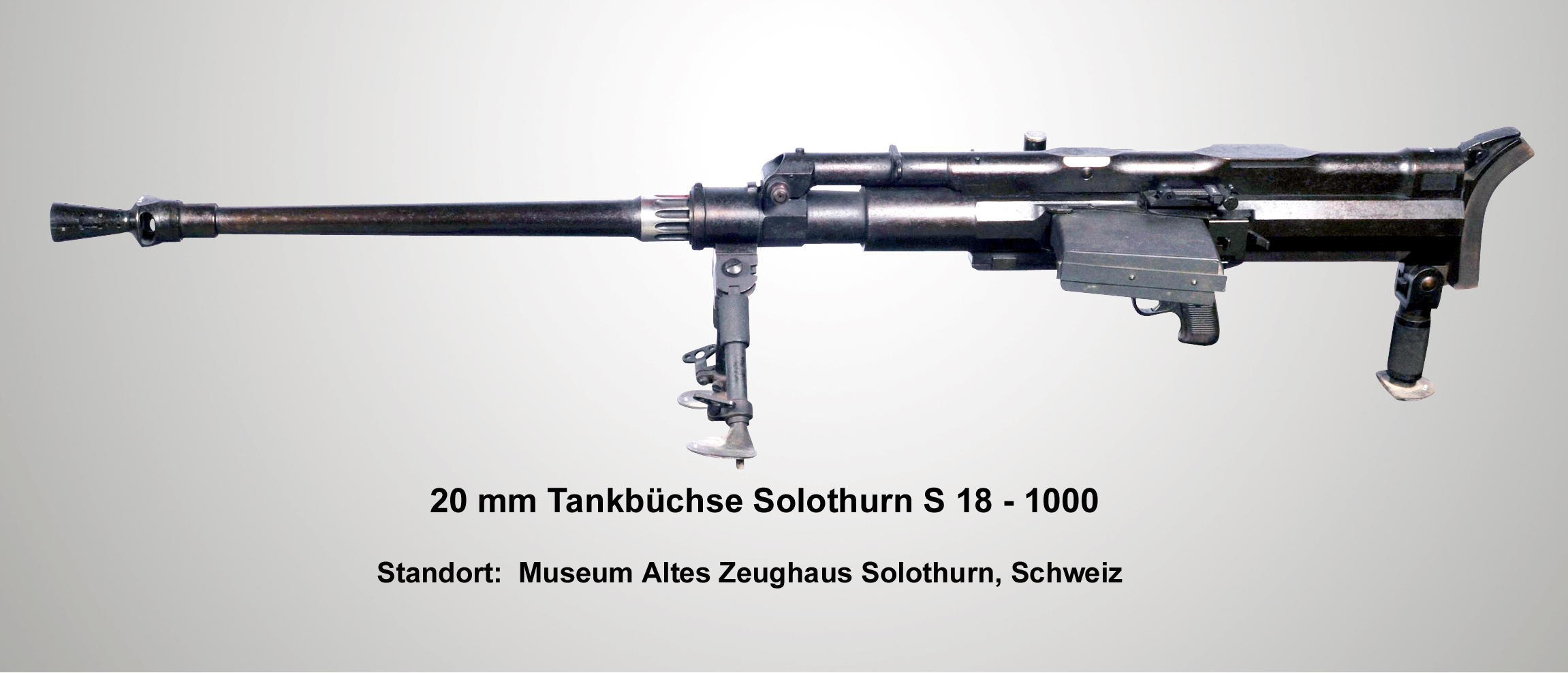 20 mm Tb Solo S 18. 1000